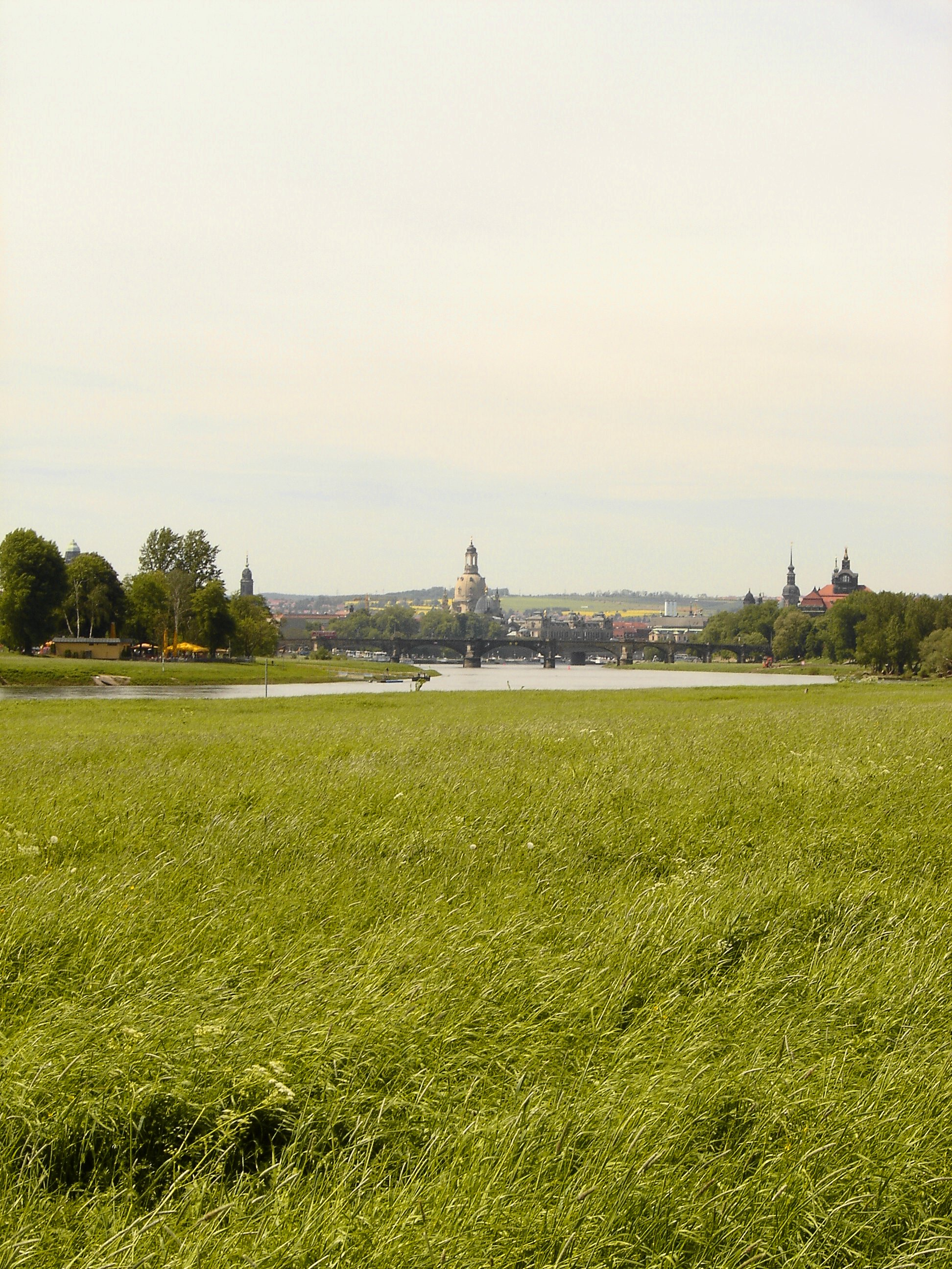 elbe at Waldschlösschen in Dresden, central in background the Frauenkirche and the historic center of the city